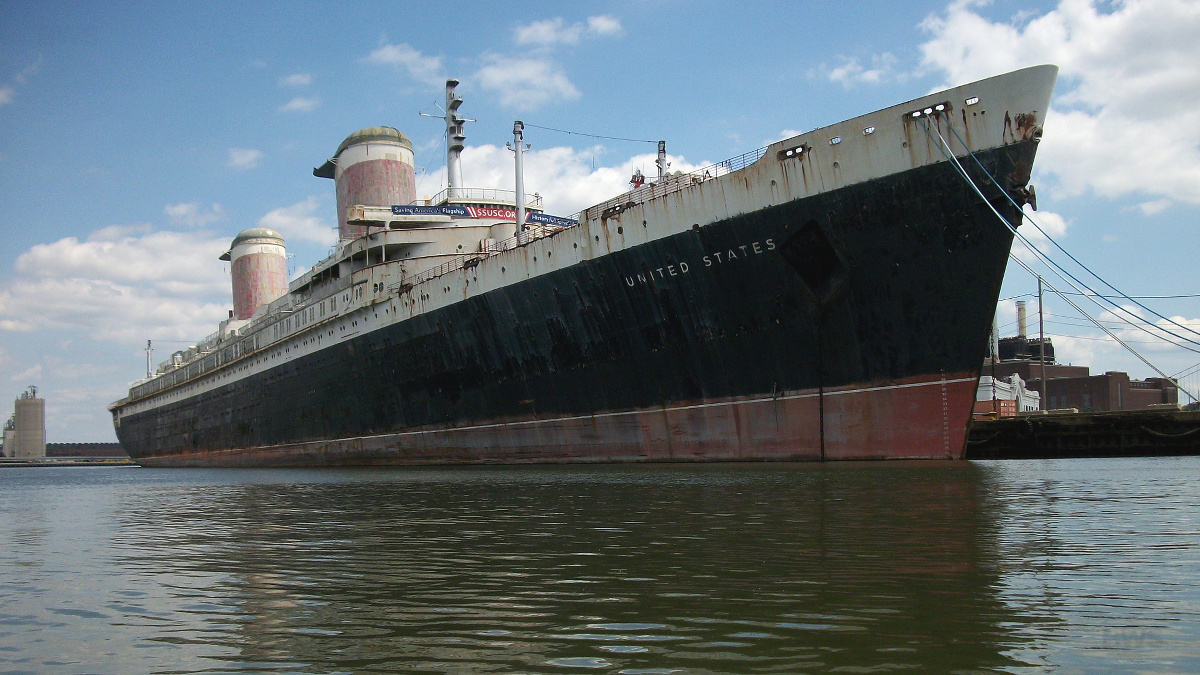 SS United States, Pier 82, Columbus Boulevard, Philadelphia, Pennsylvania, USA - starboard view from kayak